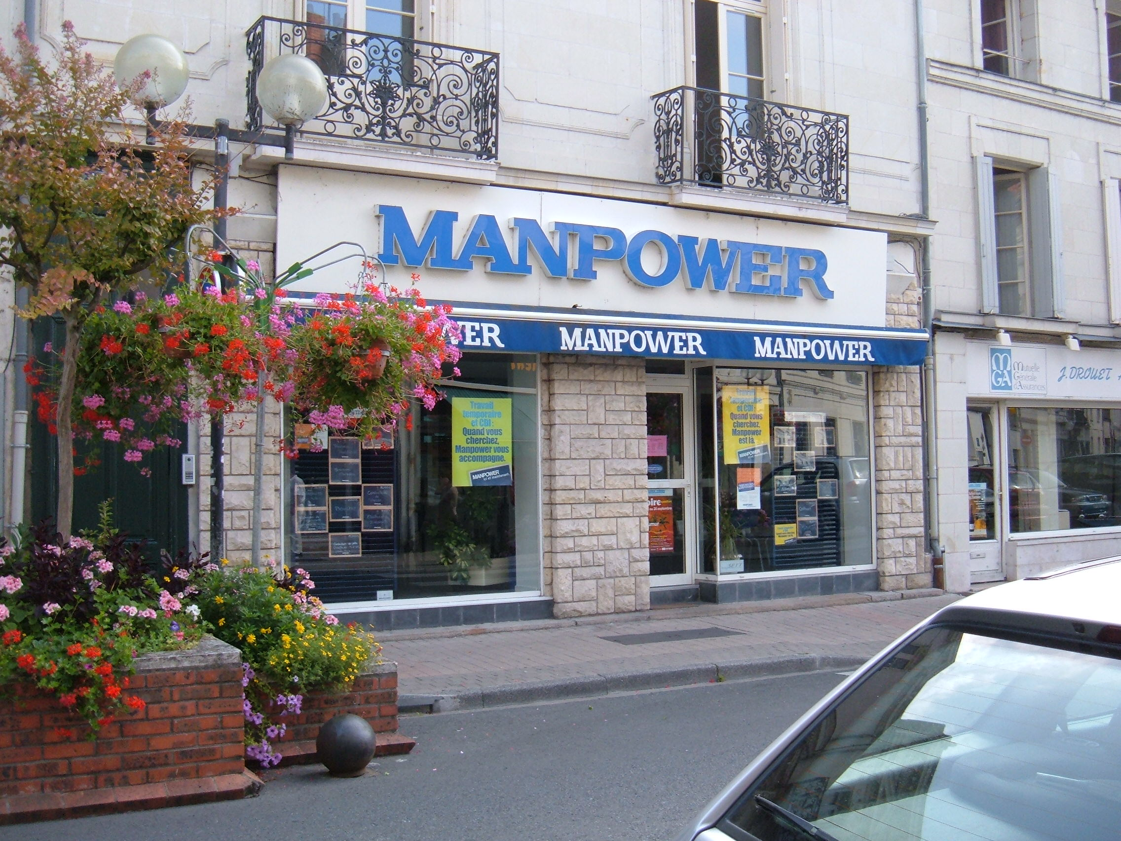 Manpower office in Saumur, France.